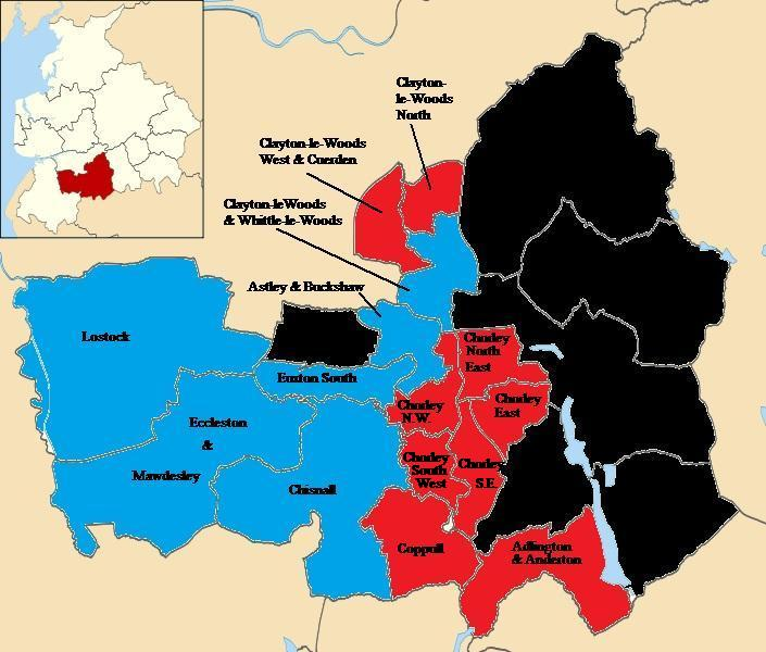 Chorley 2011